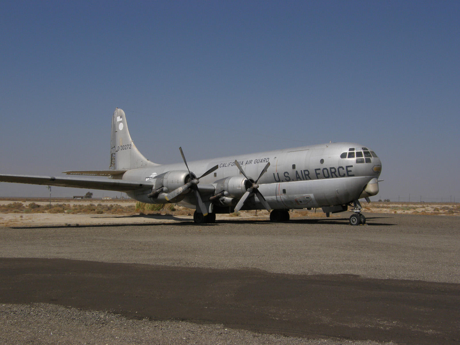 A former U.S. Air Force Boeing KC-97G Stratofreighter (s/n 53-0272), at the Milestones of Flight museum, Lancaster, California (USA), in 2007.